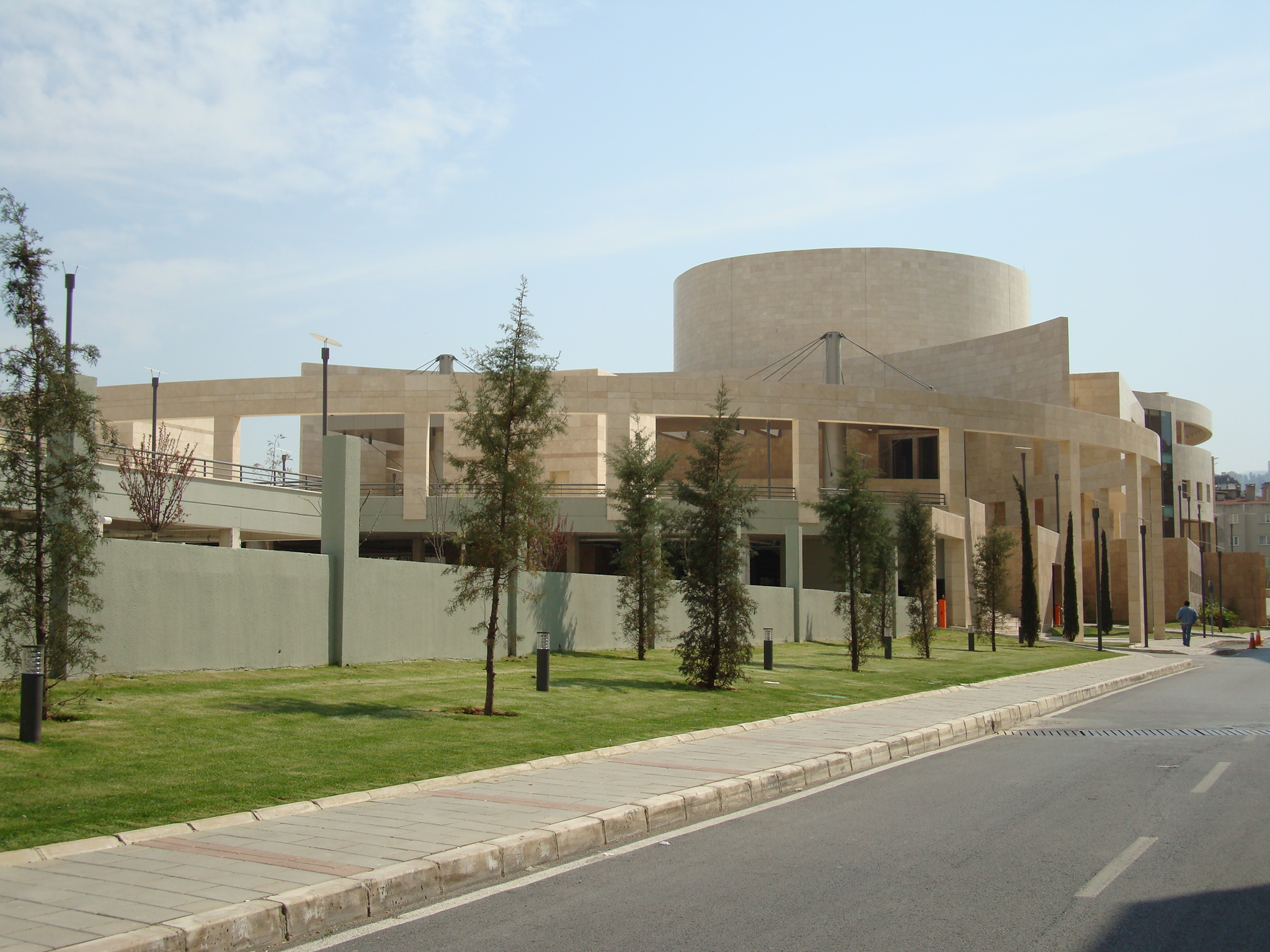 Taken by Ender YILDIRIM